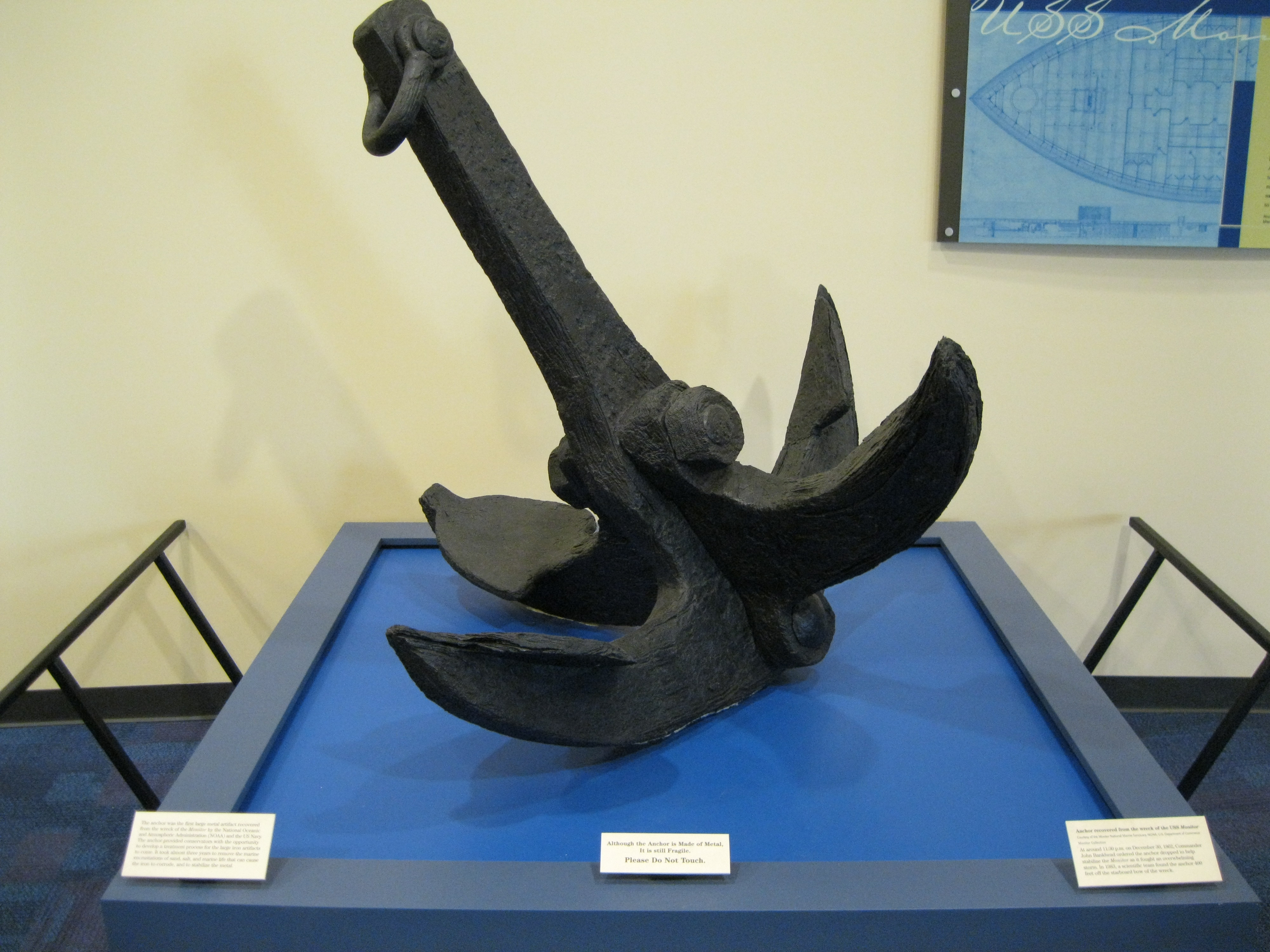 Anchor of the USS Monitor as seen at the Mariners' Museum in Newport News, 2010.